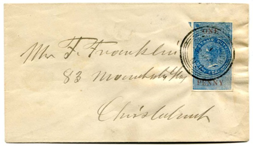 New Zealand 1893 postal fiscal cover used Christchurch c.d.s. '22 JA 93'